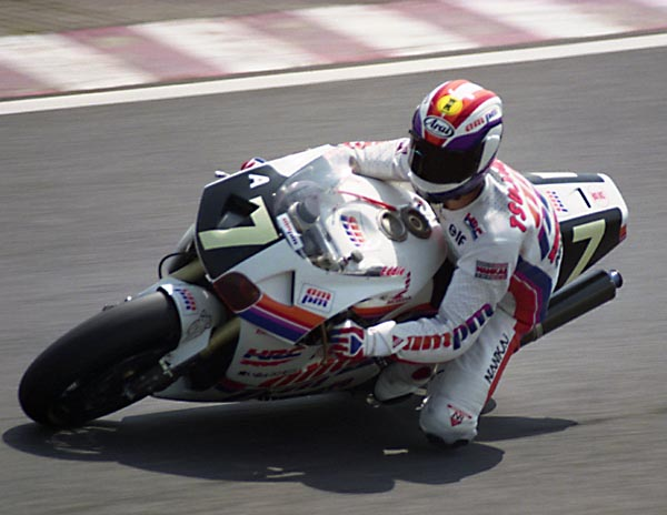 Satoshi Tsujimoto at 1993 Suzuka 8hours